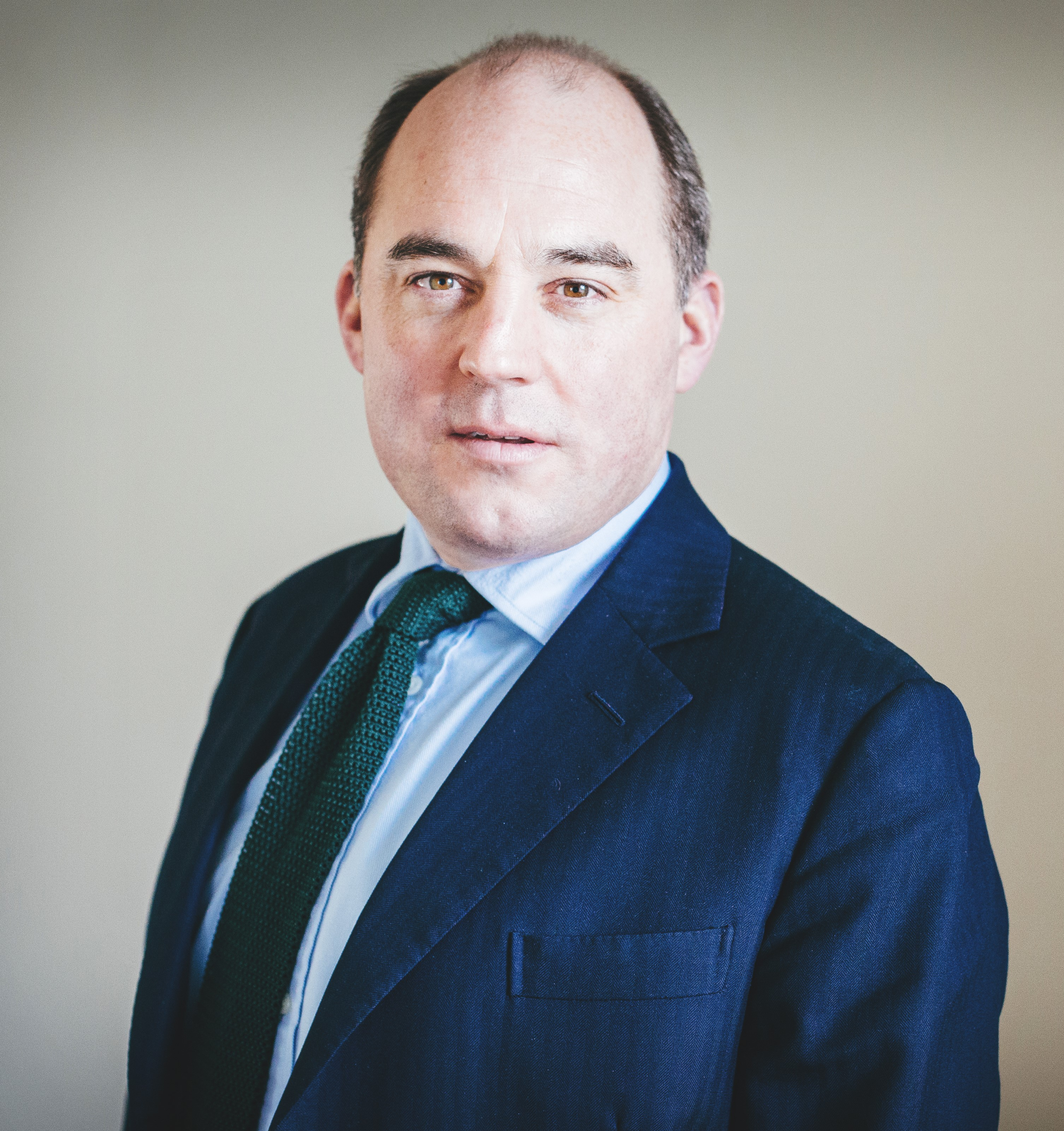 Ben Wallace MP for Wyre & Preston North